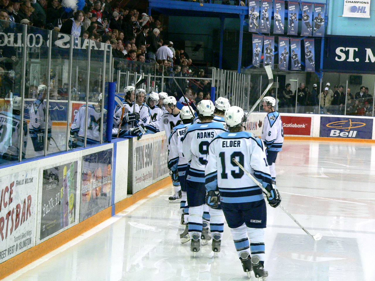 Players of the Toronto St. Michael's Majors during Game 2 of the first round of the OHL playoffs, the first place Mississauga Ice Dogs took on the home team and eighth place St. Mike's Majors.